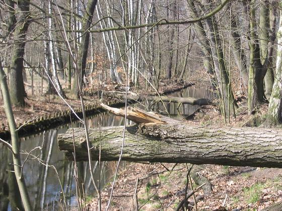 The nature reserve "Hundekehlefenn" in Berlin